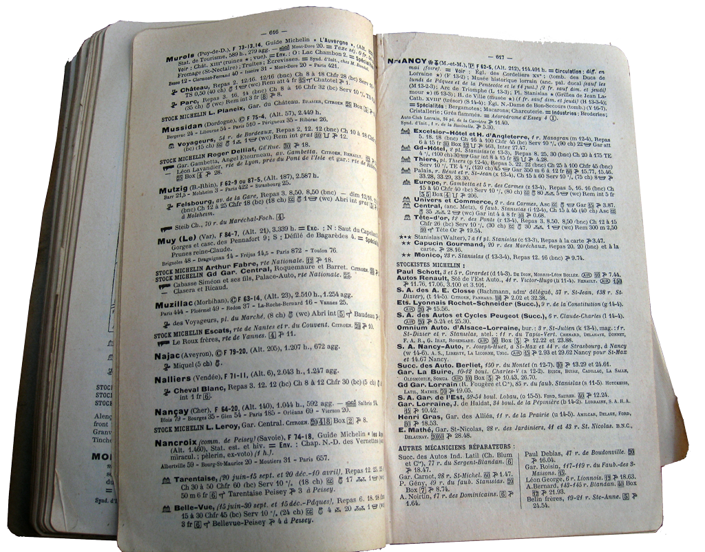 the "Nancy" page of the 1929 Michelin Guide.